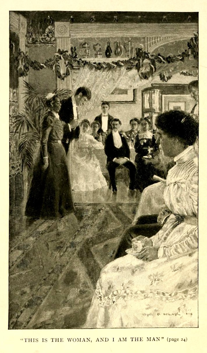 Illustration for "The Wife of His Youth", a short story by American author Charles W. Chesnutt. Published as the frontispiece to The Wife of His Youth and Other Stories of the Color Line (Houghton Mifflin, 1899). The image particularly illustrates the final line of the tale, in which the main character reveals his relationship to the mysterious older woman. Titled as "This is the woman, and I am the man." Original source See also: File:Wife of His Youth illustration.jpg